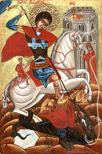 Orthodox Bulgarian icon of St. George fighting the dragon. Alciato's Book of Emblems The Memorial Web Edition in Latin and English Andrea Alciato's Emblematum liber or Book of Emblems had enormous influence and popularity in the 16th and 17th centuries. It is a collection of 212 Latin emblem poems, each consisting of a motto (a proverb or other short enigmatic expression), a picture, and an epigrammatic text. Alciato's book was first published in 1531, and was expanded in various editions during the author's lifetime. It began a craze for emblem poetry that lasted for several centuries. We use the Latin text and images from an important edition of 1621 and we give a translation into English.